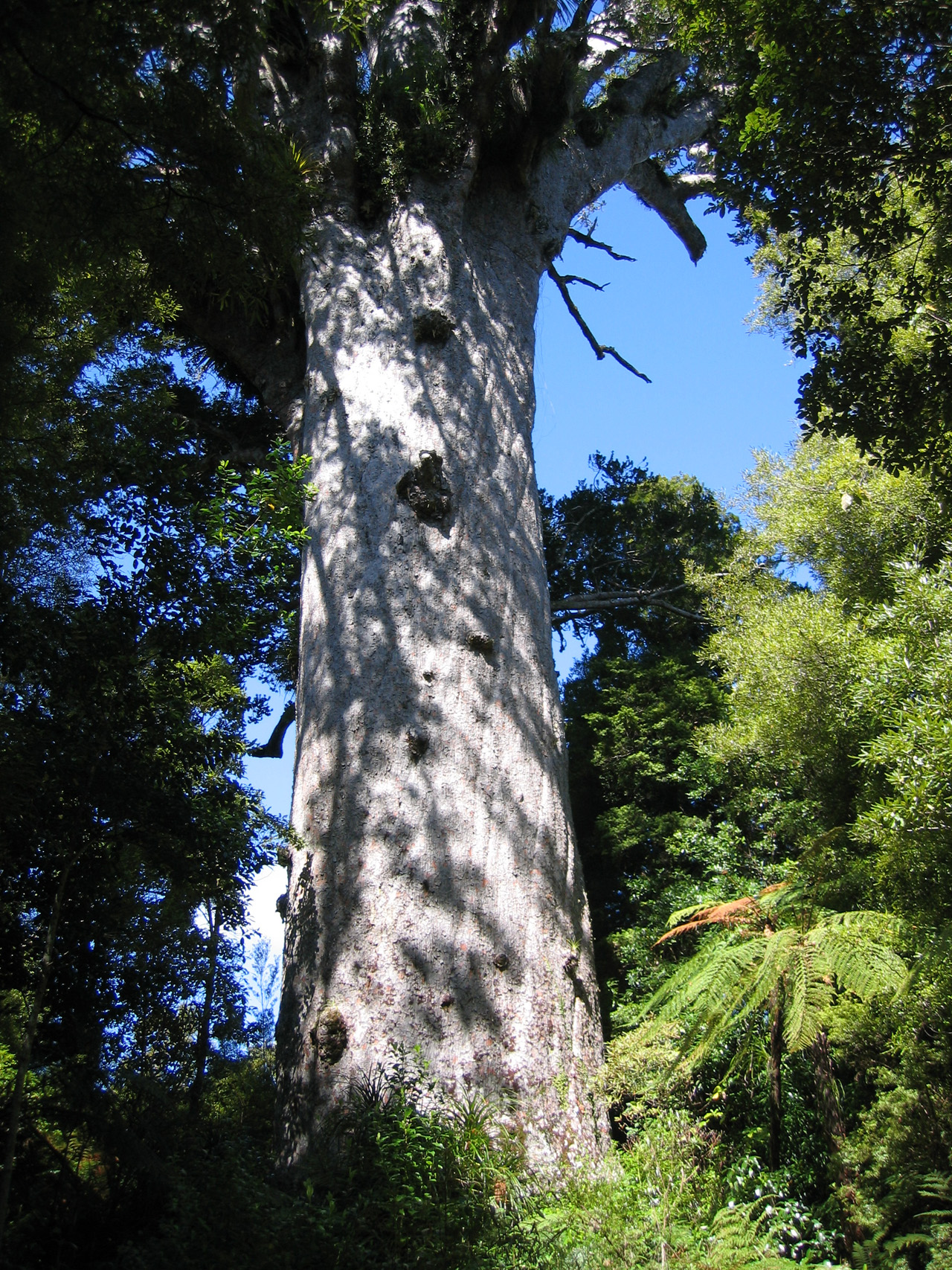 Agathis australis "Tāne Mahuta" in Waipoua Forest.